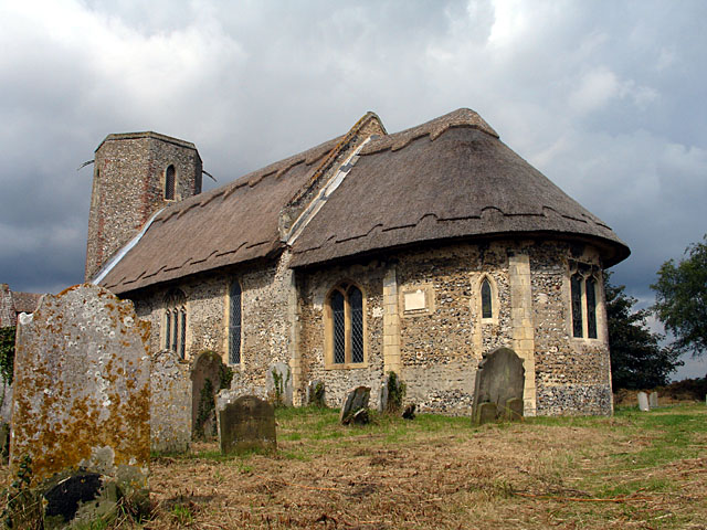 St Gregory's, Heckingham. St Gregory's has a thatched Saxon round tower.